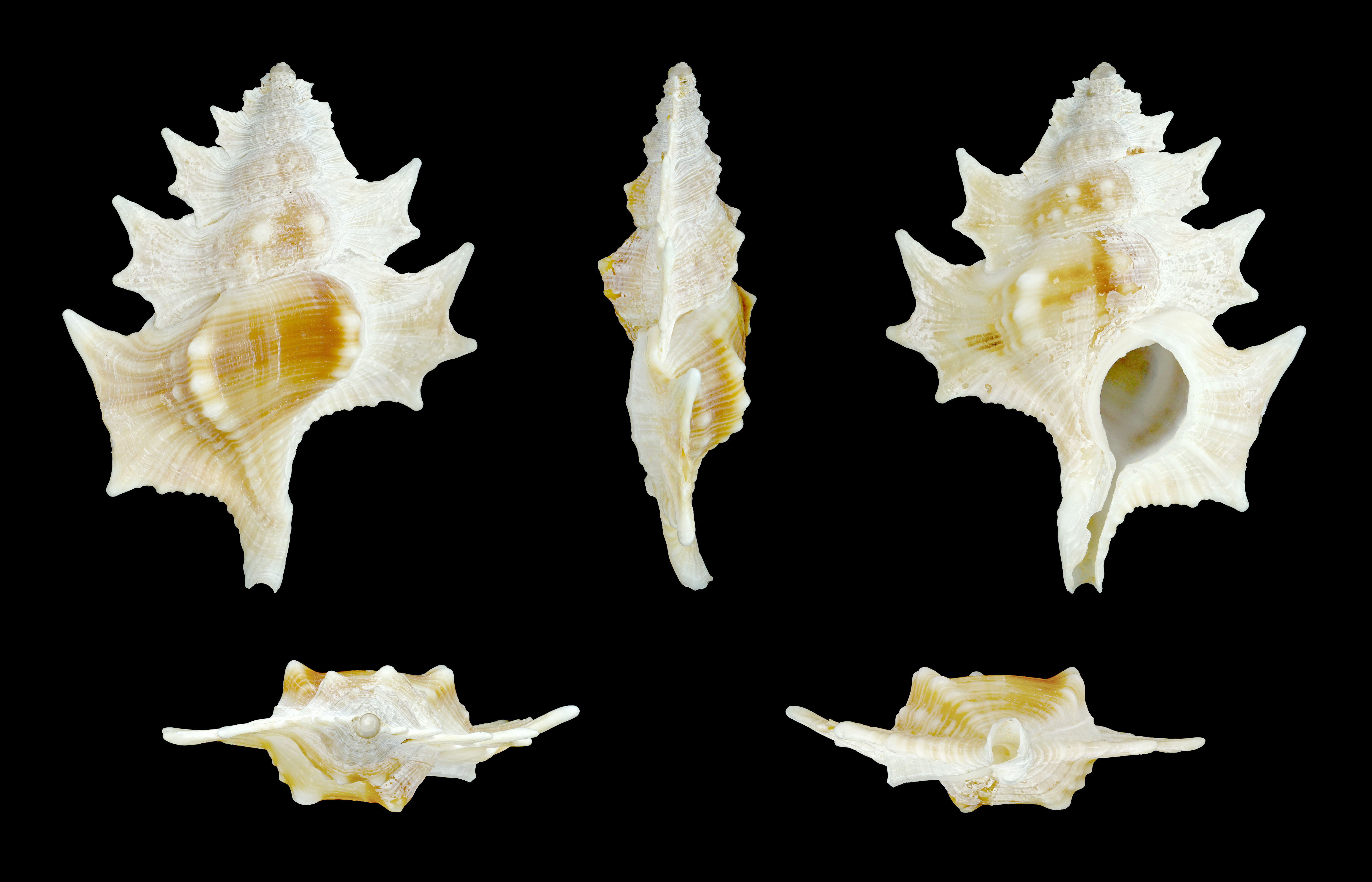 Maple Leaf Triton; Length 4.0 cm; Originating from Balicasag Island, Bohol, Philippines; Shell of own collection, therefore not geocoded. Dorsal, lateral (right side), ventral, back, and front view.